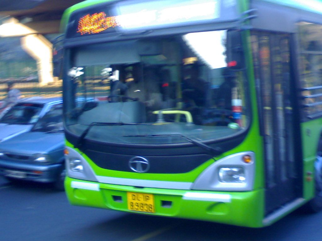 A low floor bus at Raja Garden, Ring Road in Delhi. The buses will change the way of bus travel in city.